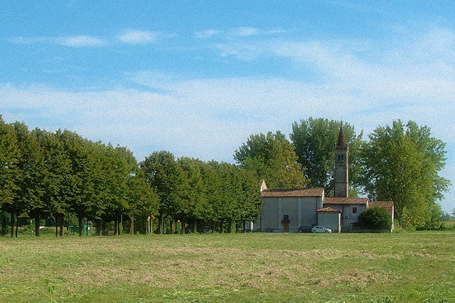 Church of Santa Maria del Binengo, Sergnano, province of Cremona, Italy